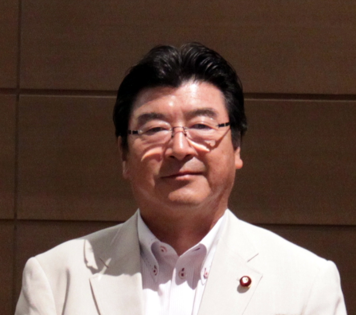 Edward Davey, Secretary of State for Energy and Climate Change, and Tim Hitchens, Ambassador to Japan, met members of the Global Legislators Organization for a Balanced Environment on May 30, 2013.